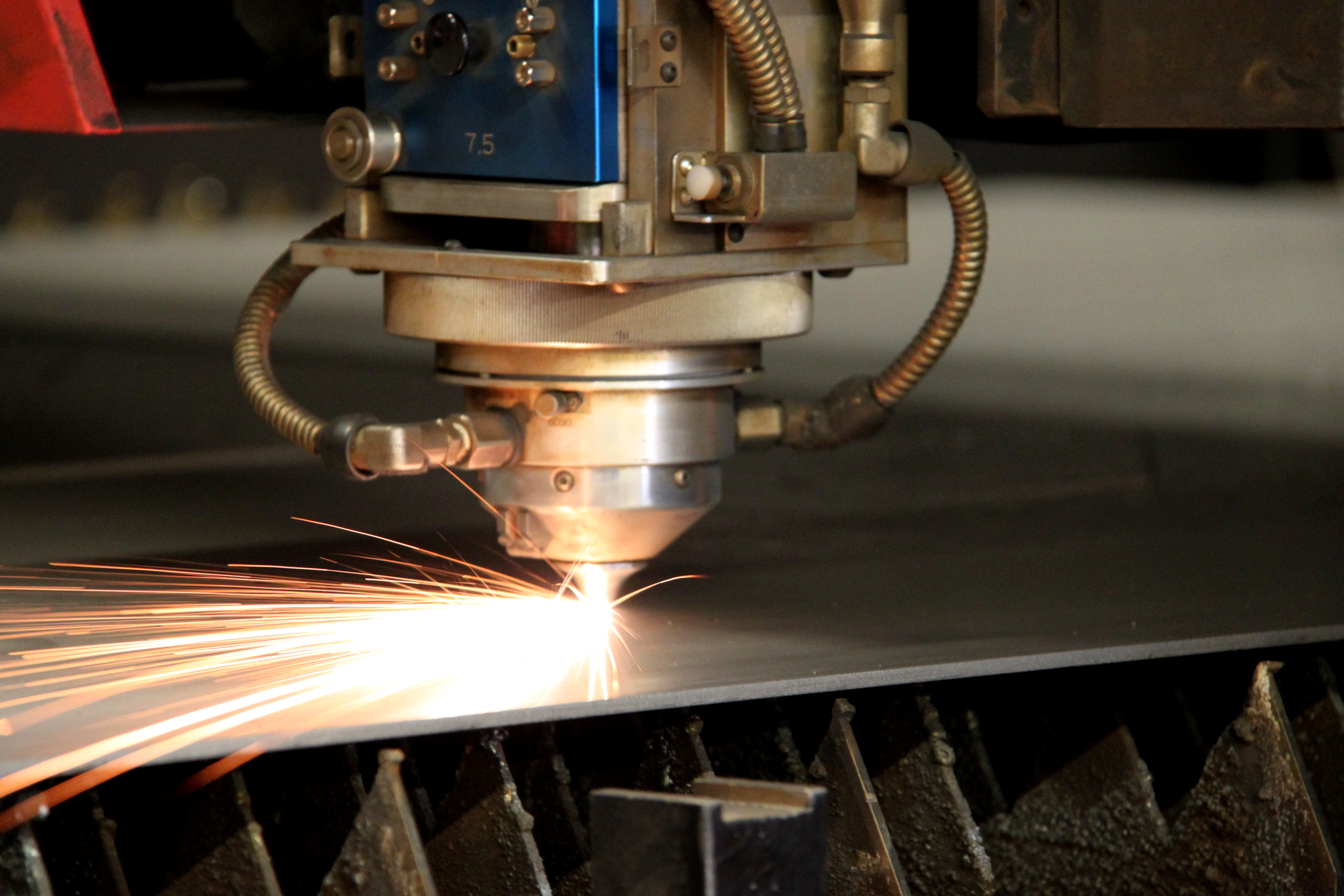 This is the laserhead of an AMADA FO-4020NT industrial laser installed at Metaveld BV